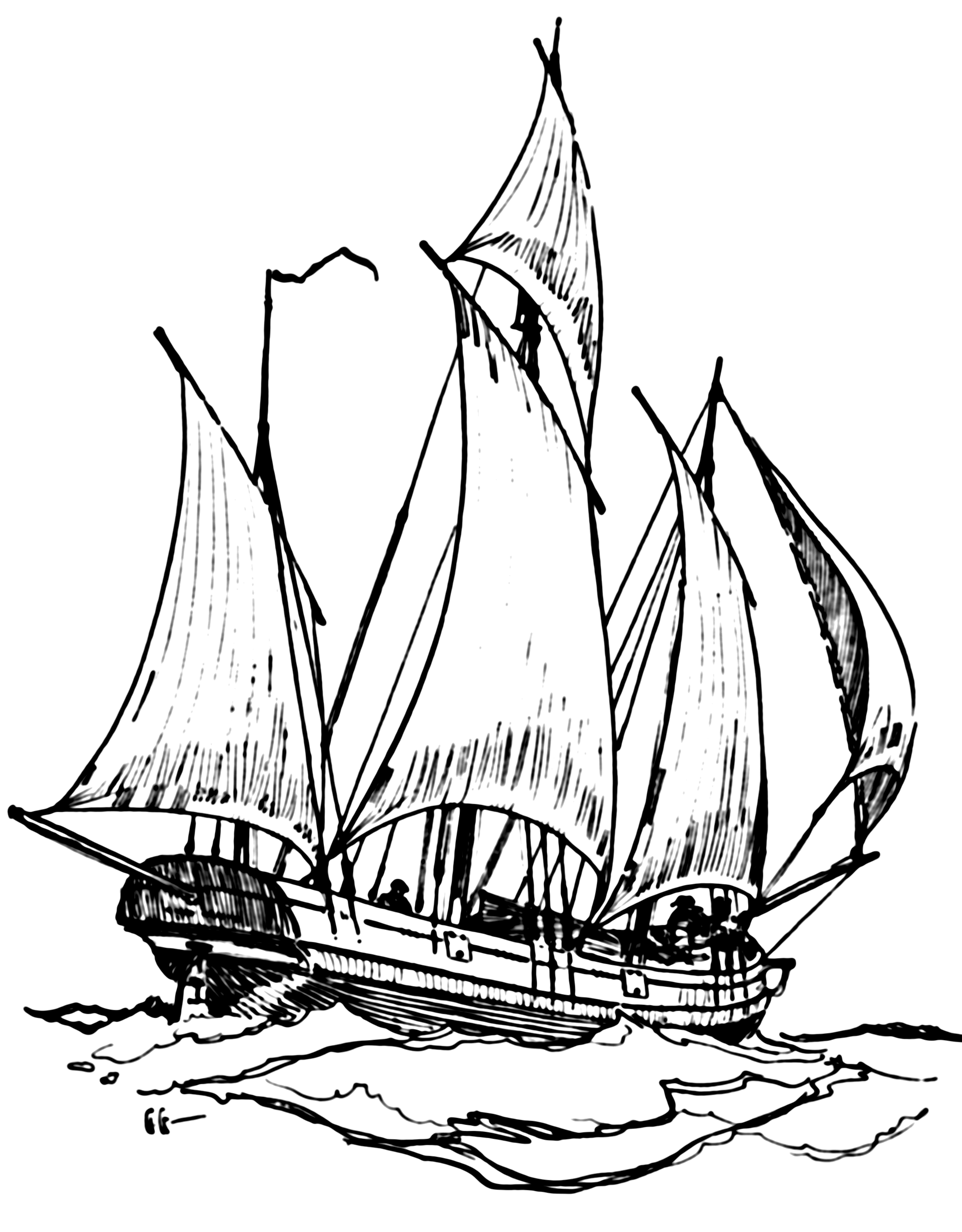 Drawing of a lugger.